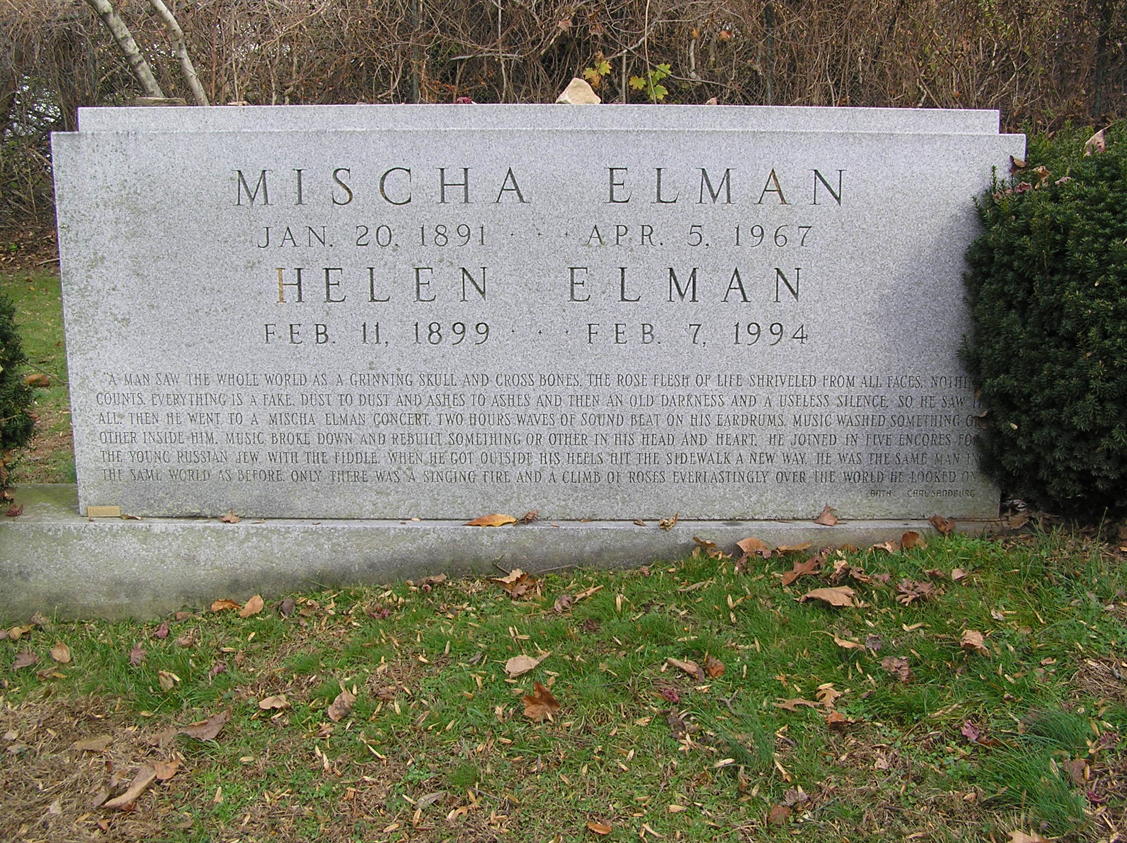 I took this photograph of the grave of Mischa Elman in Westchester Hills Cemetery. — GNU Free Documentation License